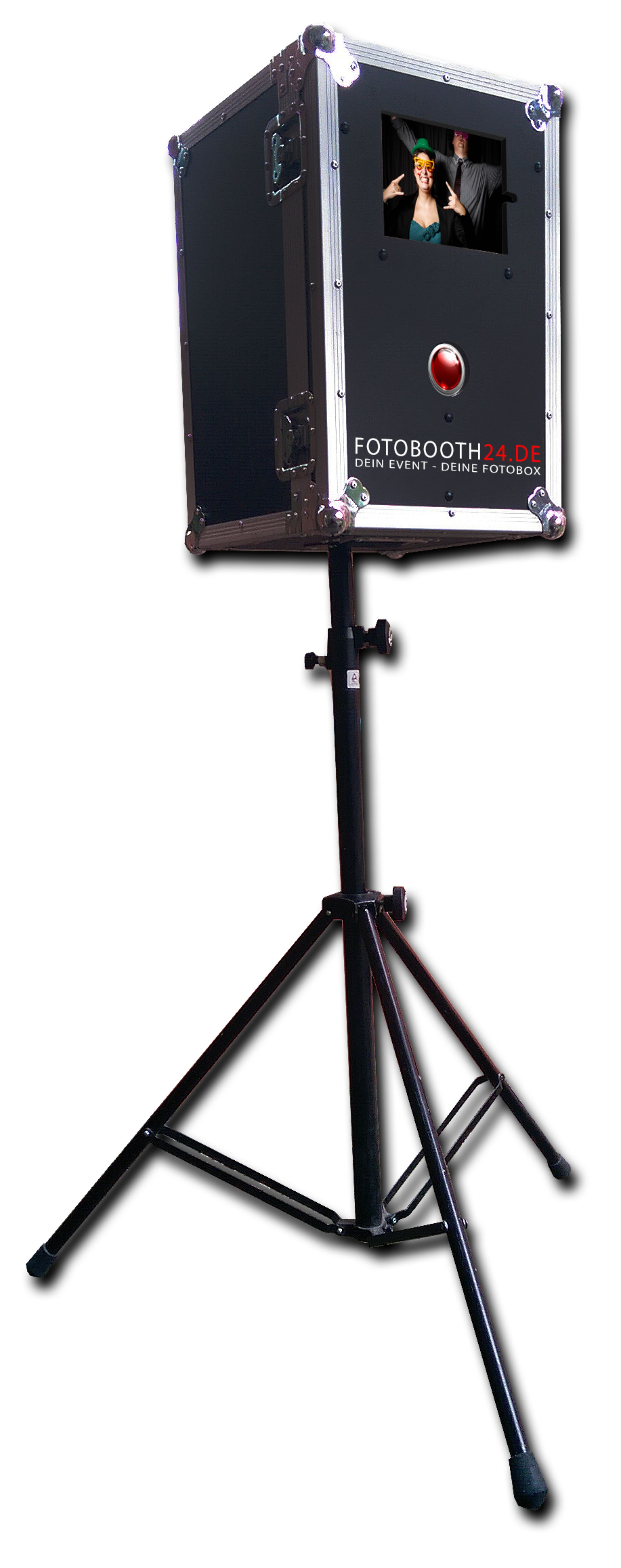 (Photobooth) Photo booth on tripod